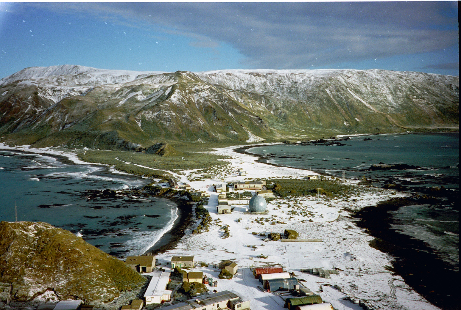 Macquarie Island isthmus after a snowfall